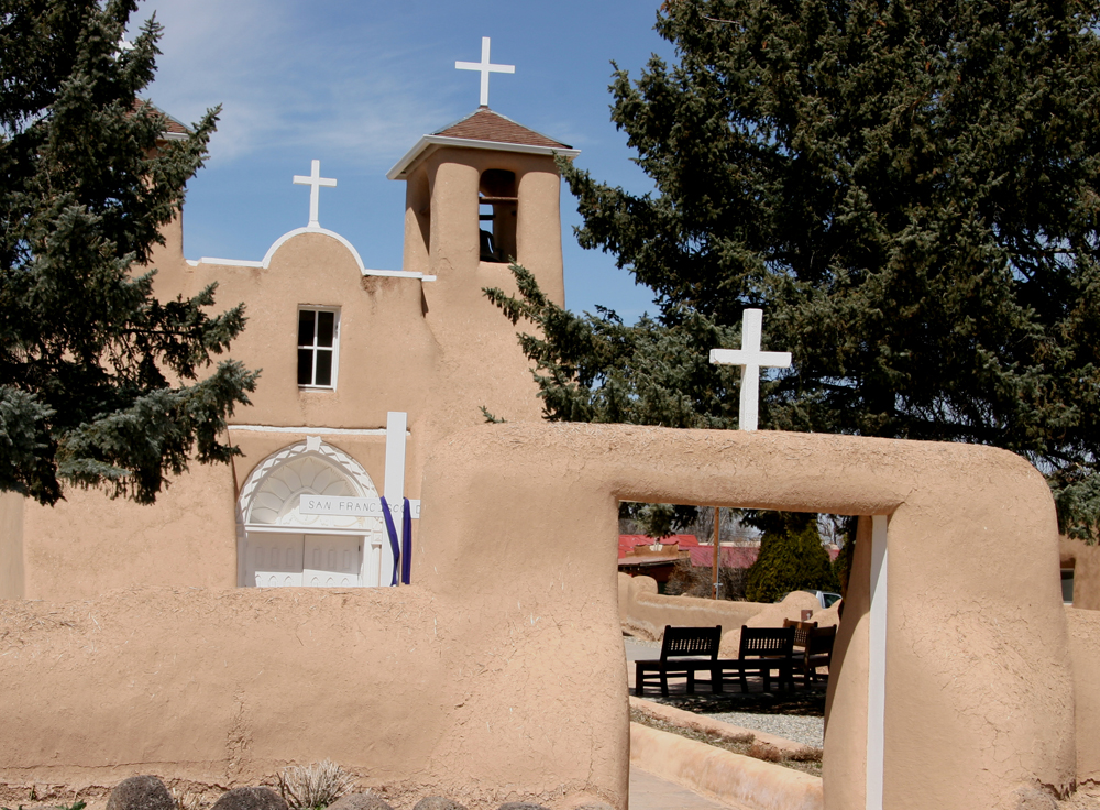 San Francisco de Asis Church and Front Wall